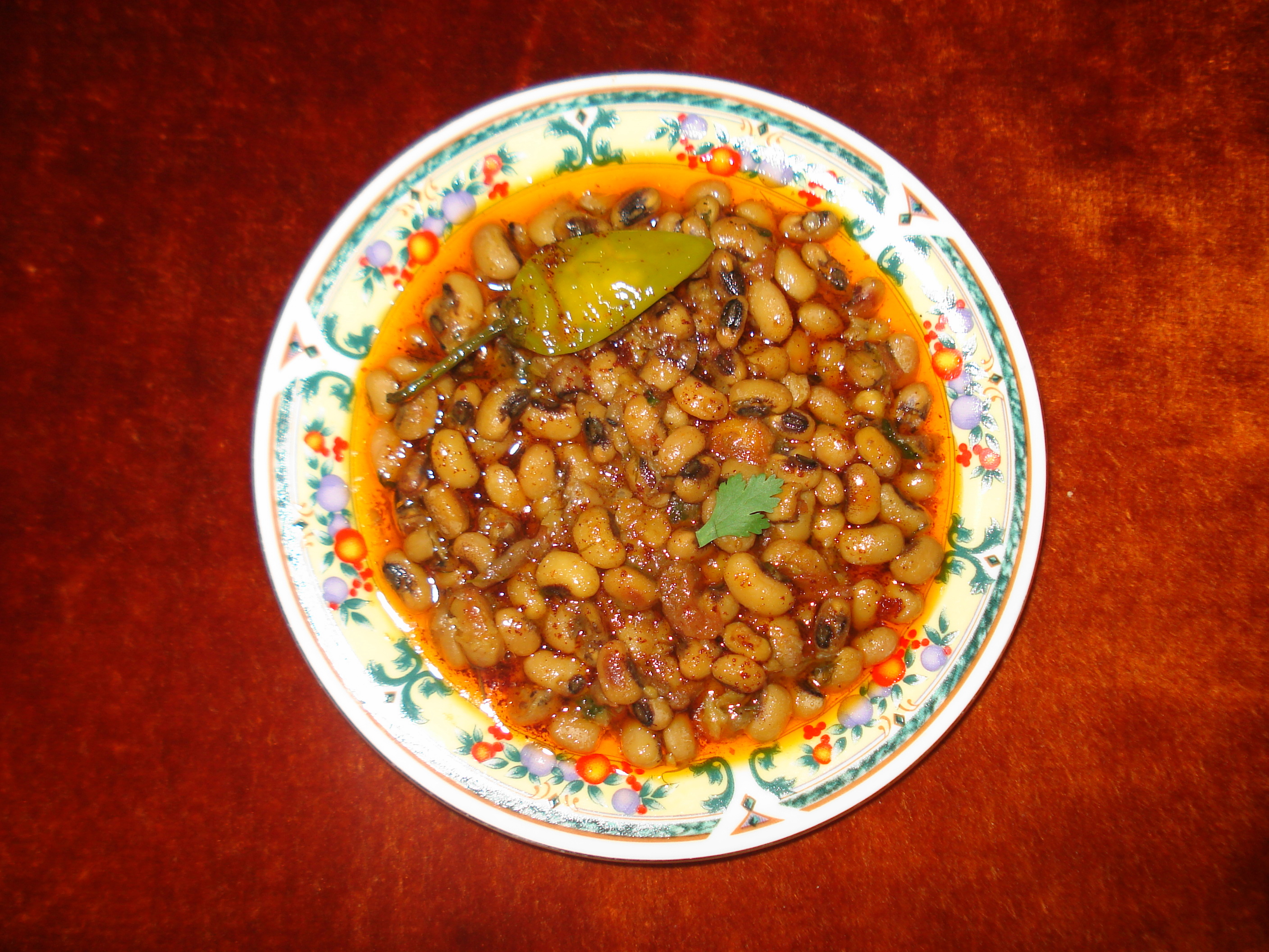 Lobia Ka Salan, Black Eyed Bean Curry from India